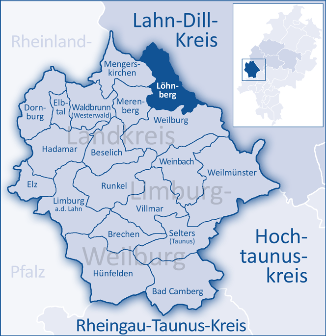 The map shows a district in the area of Limburg-Weilburg